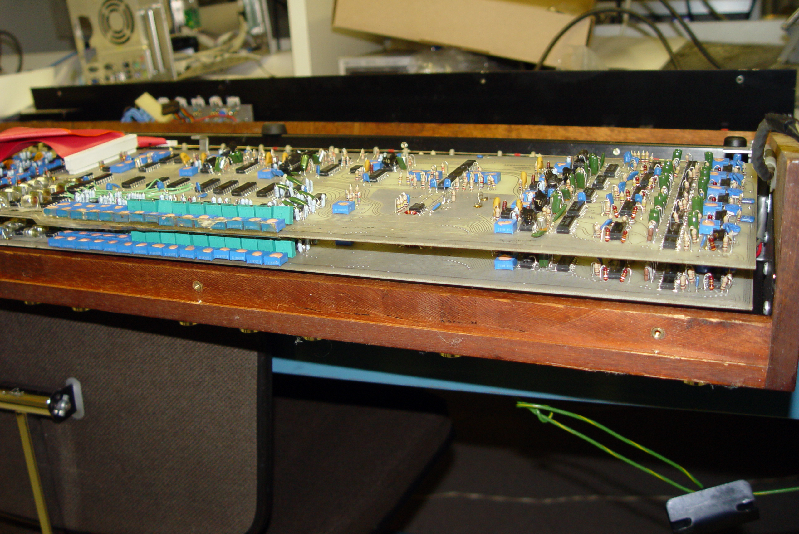 SCI Prophet 10 inside — sandwiched voice boards That's two Prophet 5 voice boards sandwiched together. thermal nightmare!